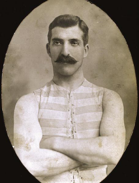 Photograph circa 1900 of Australian rules football player David Christy. Photo sourced from Western Australian Football League Hall of Fame [